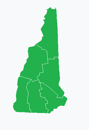 The county results in New Hampshire for the 1820 United States Presidential Election